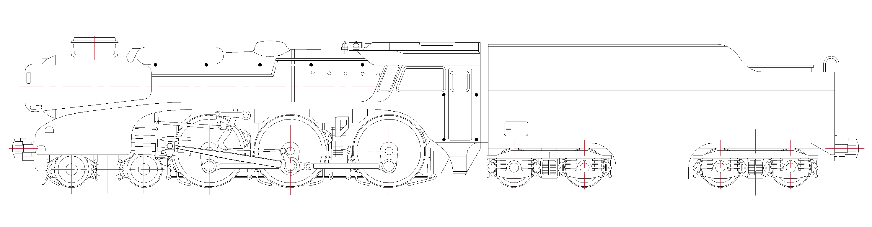 Elevation Drawing of 5AT Locomotive, traced from ink drawing by David Wardale.